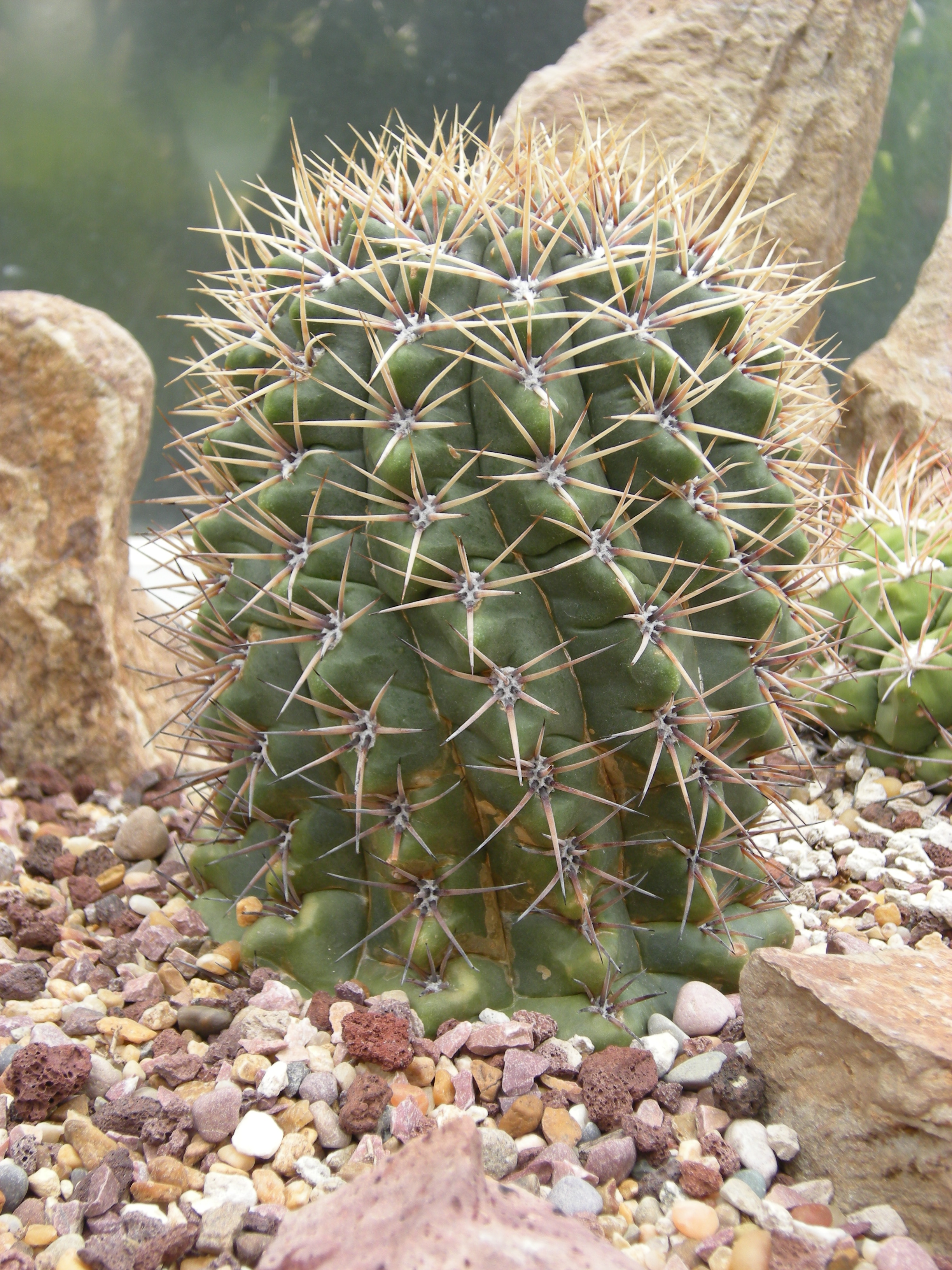 Gymnocalycium saglionis c-1237. "Giant Chin Cactus", Argentina. Photographed at Volunteer Park Conservatory, Seattle, Washington.